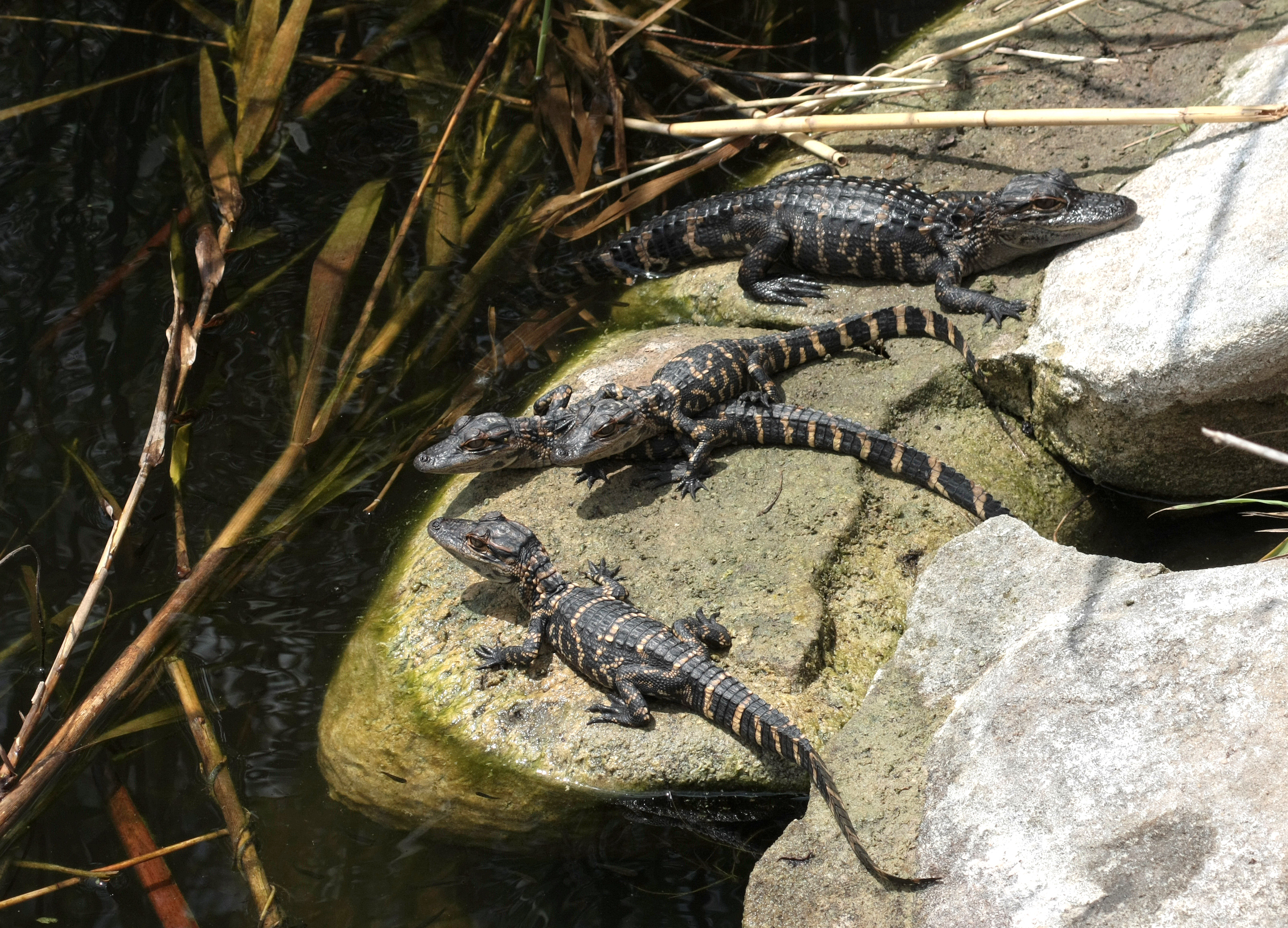 Several baby American alligators (Alligator mississippiensis)